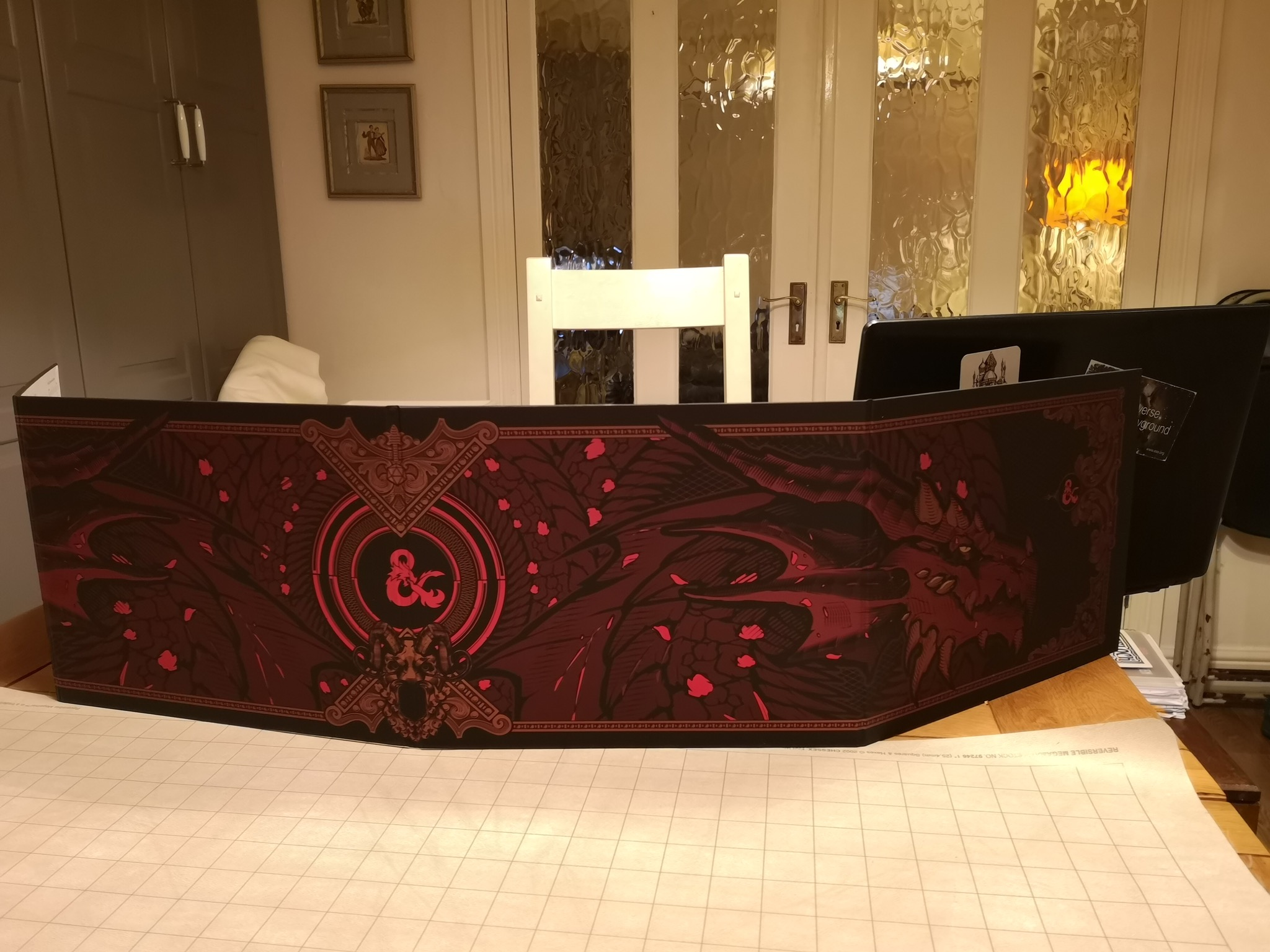 The alternative release of the 5th edition Dungeon Master’s Screen by the artist Hydro74